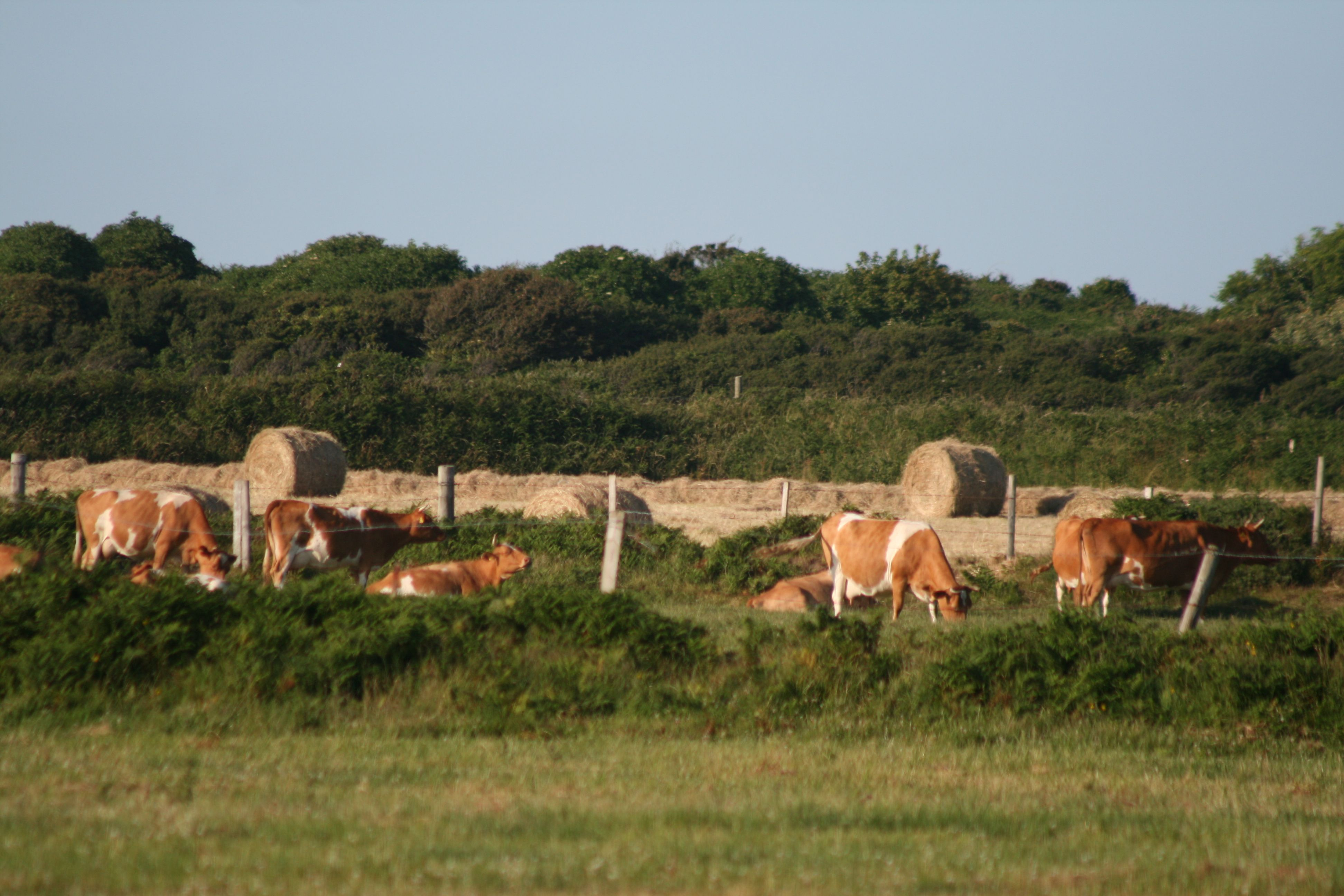 Sark, June 2009